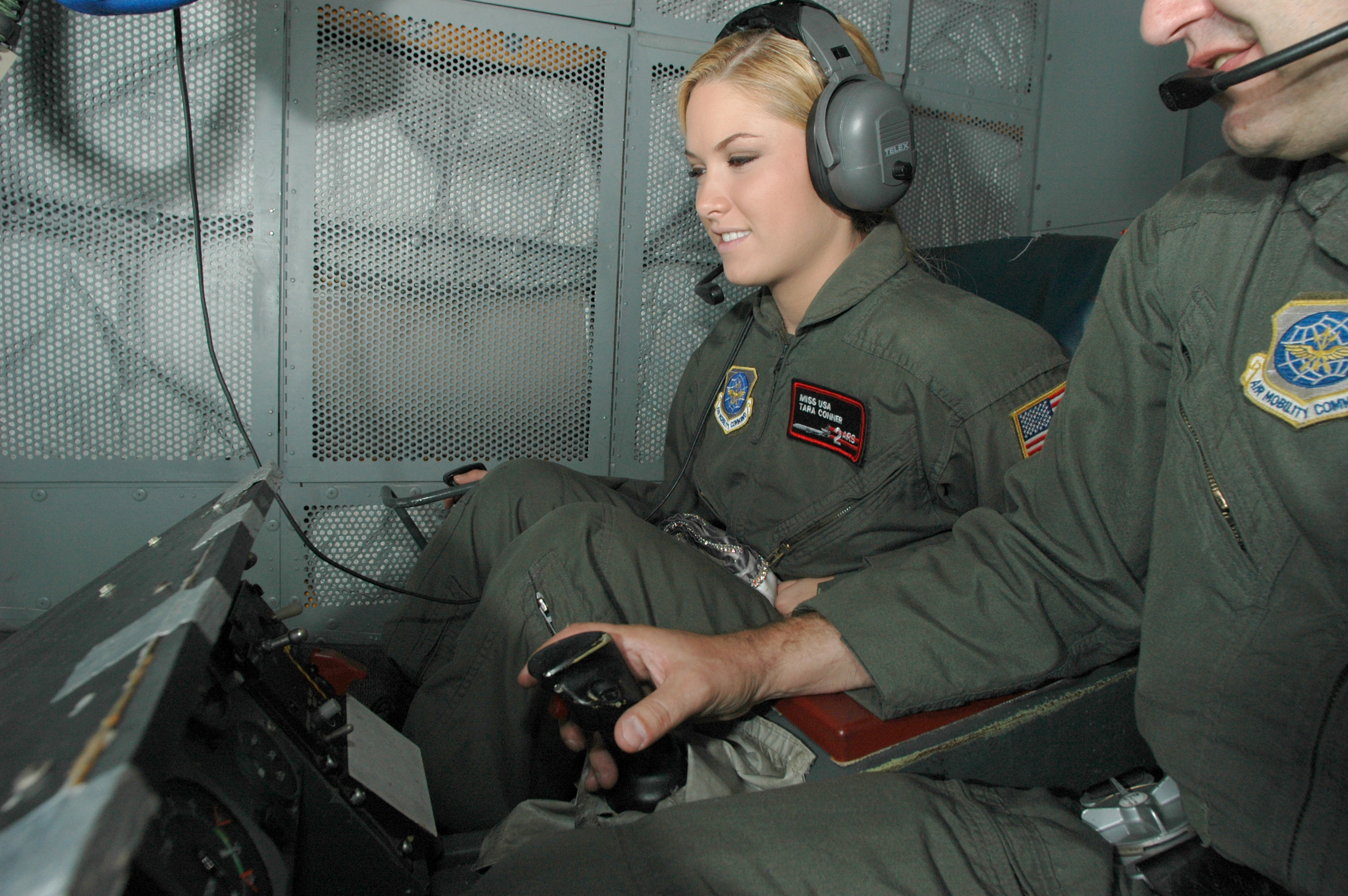 Miss USA 2006 Tara Conner, operates a KC-10 boom Sept. 14 with the help of Master Sgt. Shawn Lamb, 2nd Air Refueling Squadron boom operator.